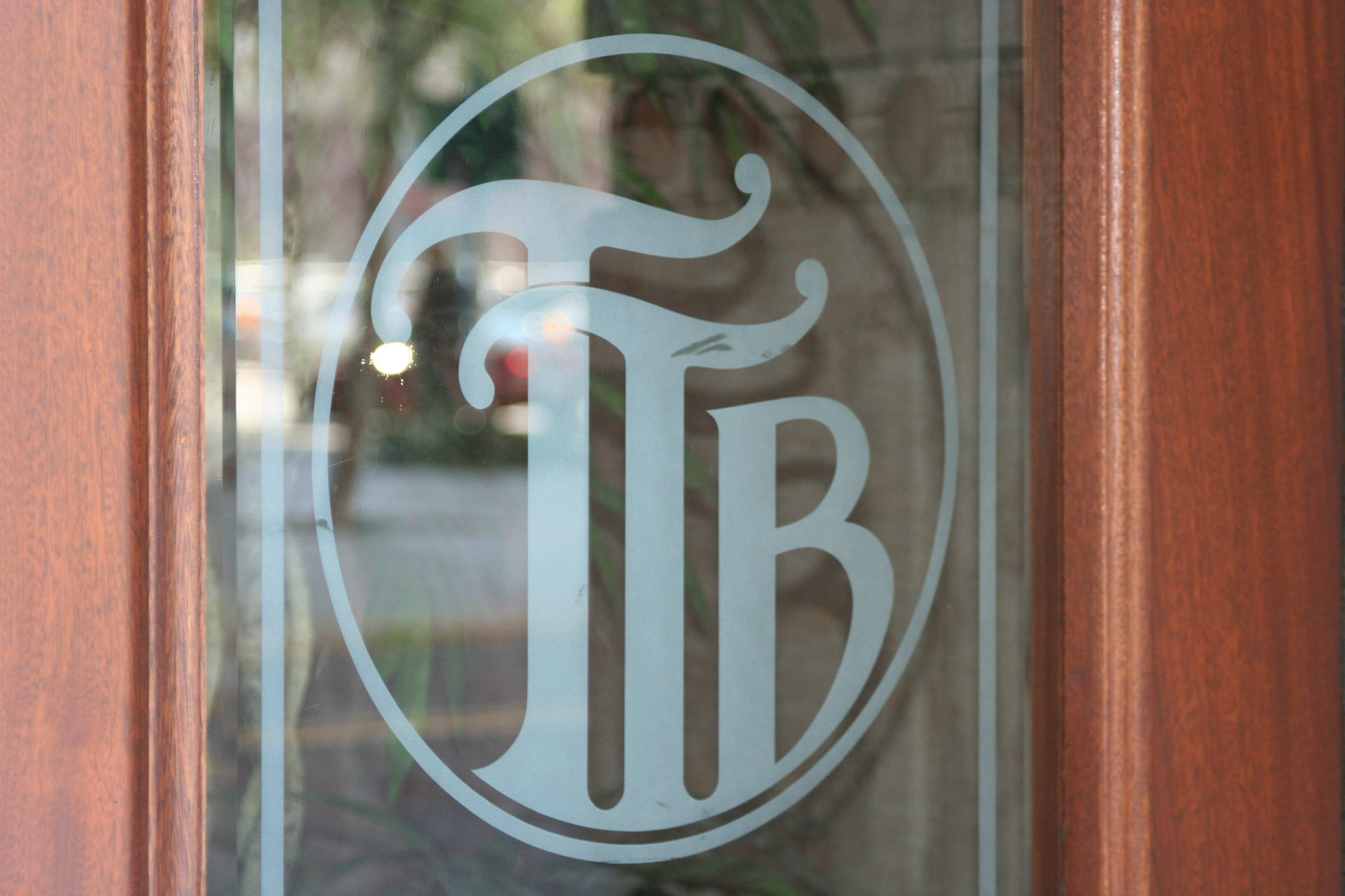 Tampa Theatre building logo etched on window 2012